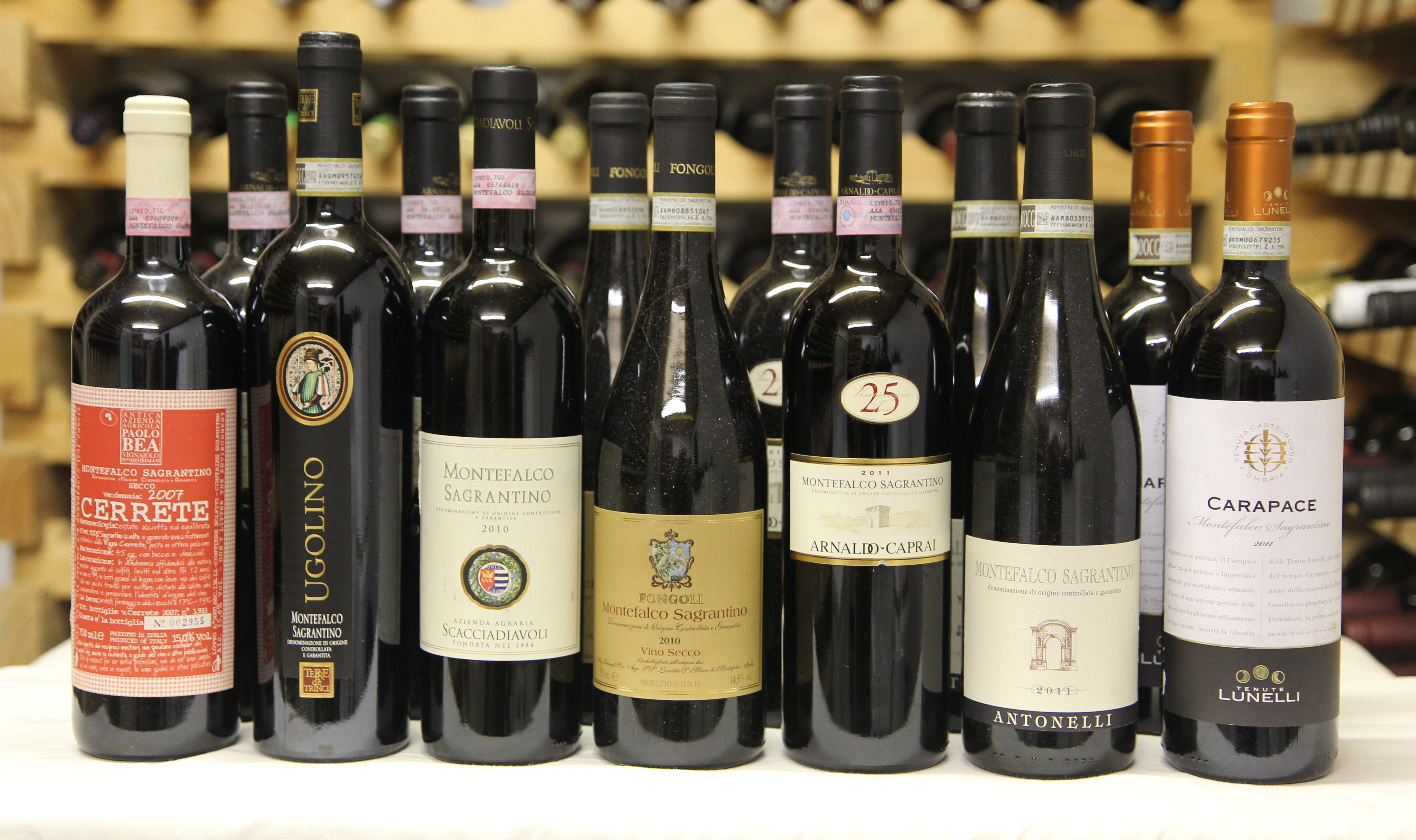 A selection of Montefalco Sagrantino wines. Left to right: Paolo Bea; Terre de Trinci; Scacciadiavoli; Fongoli; Arnaldo-Caprai; Antonelli San Marco; Lunelli.